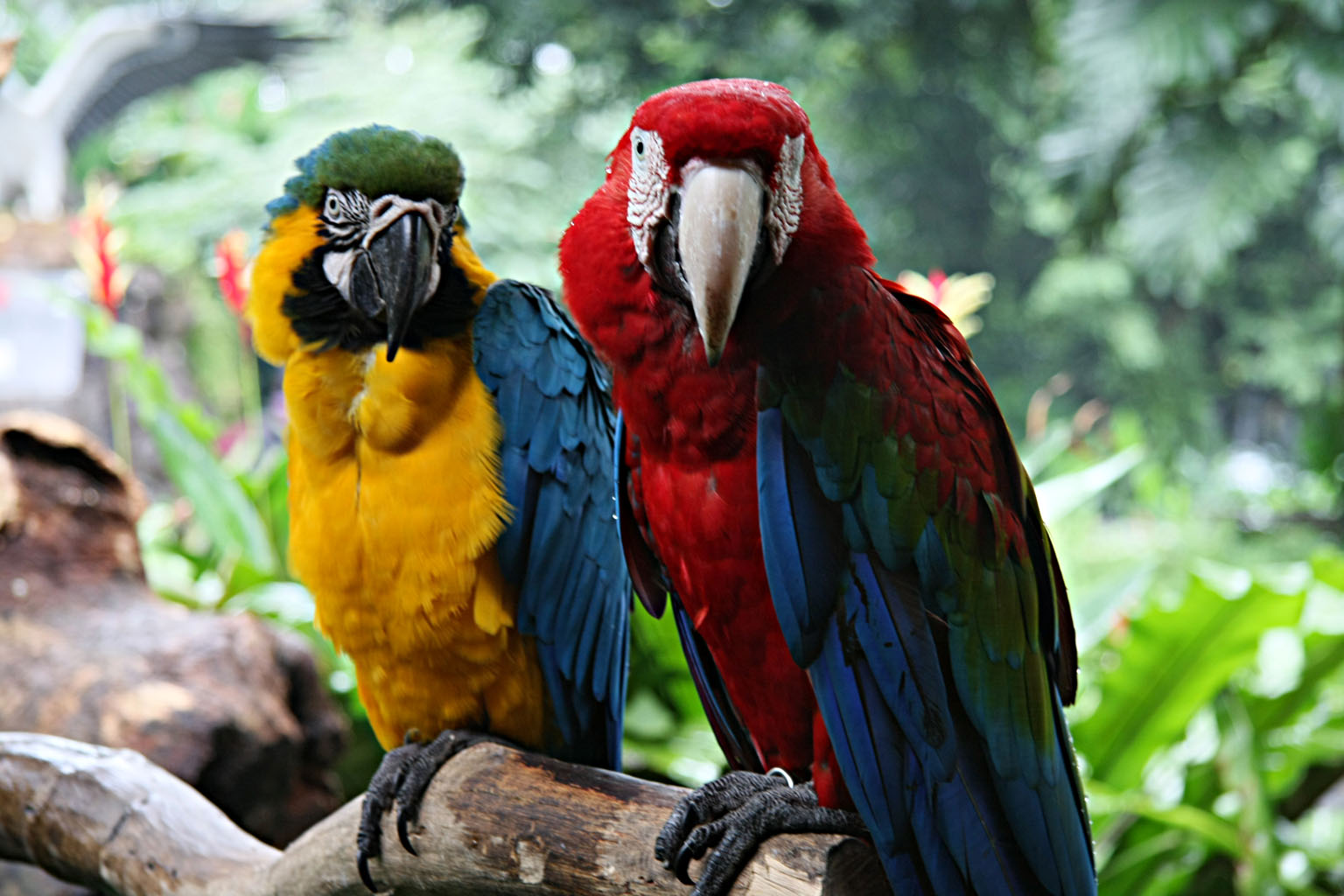 Blue-and-gold Macaw (Ara ararauna) on left and Green-winged Macaw (Ara chloropterus) on right. At Jurong Bird Park, Singapore.